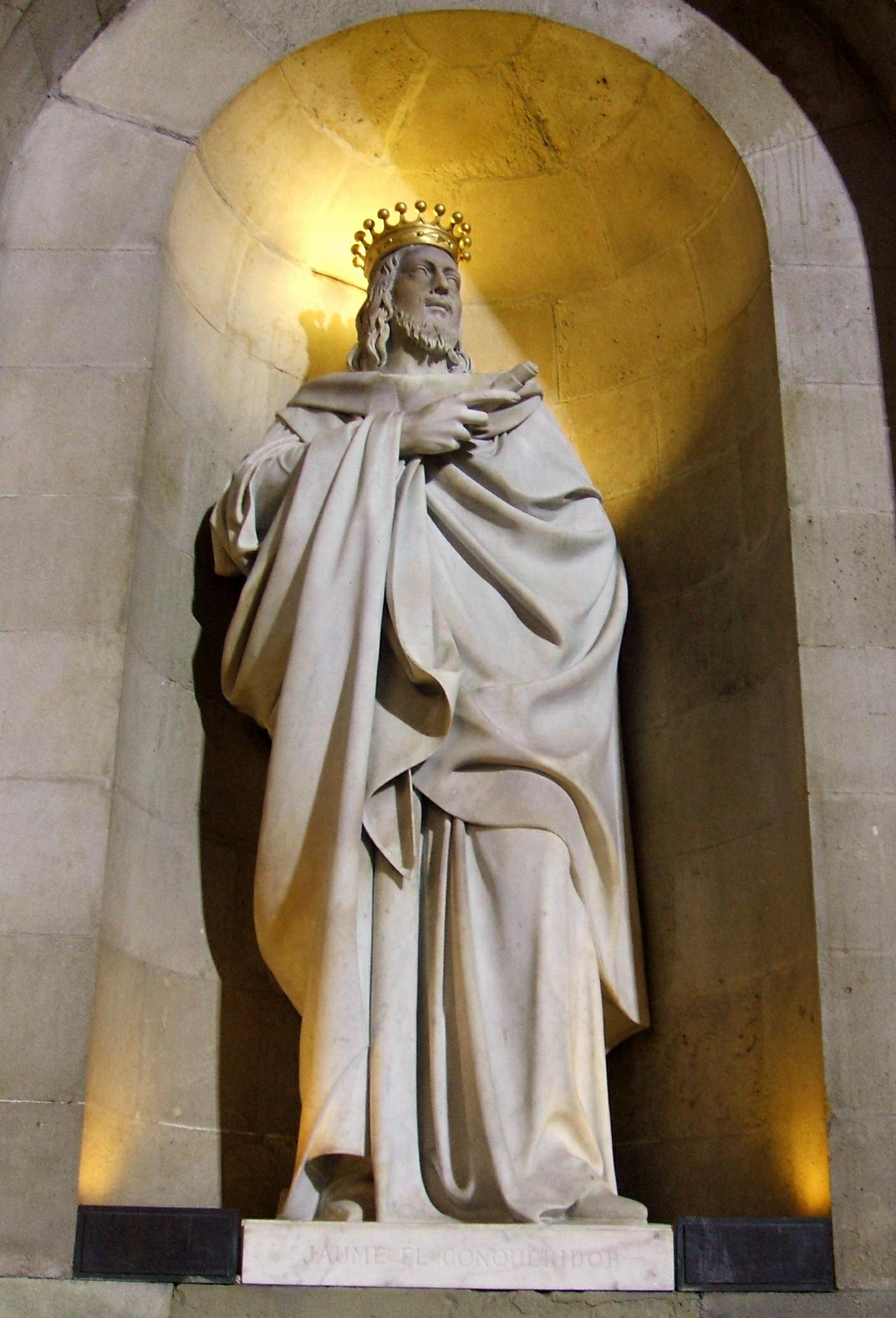 Estatua de Jaume I en la fachada neoclásica del Ayuntamiento de Barcelona (Cataluña, España)